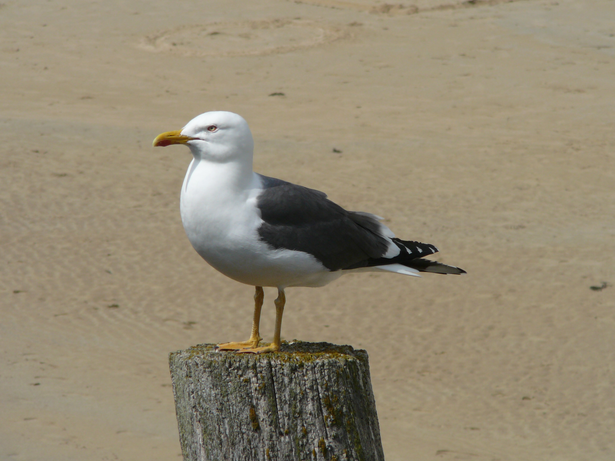 Laridae Larus in Saint-Malo (France)